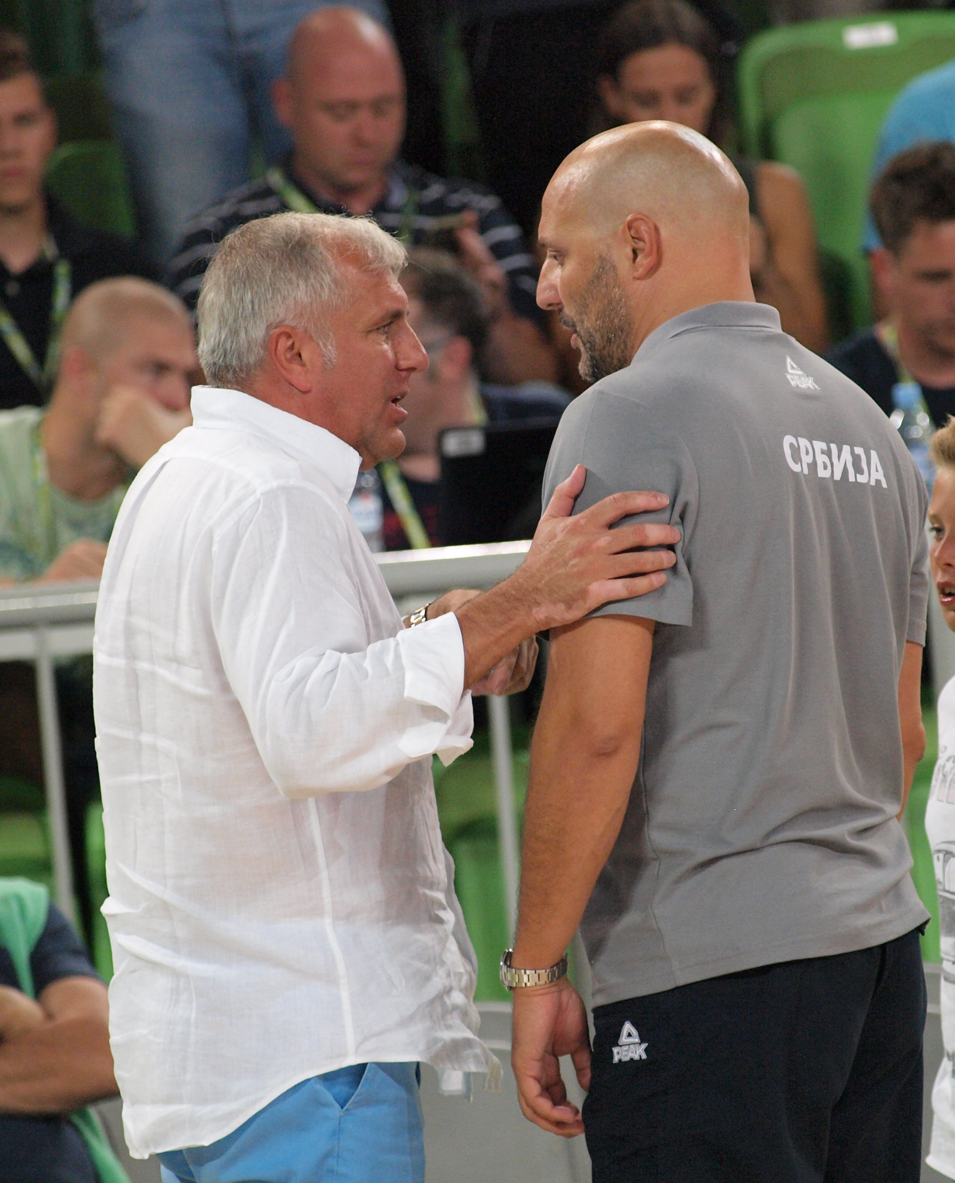 Željko Obradović and Aleksandar Đorđević. Friendly match Slovenia-Serbia in Ljubljana, 27. august 2015.